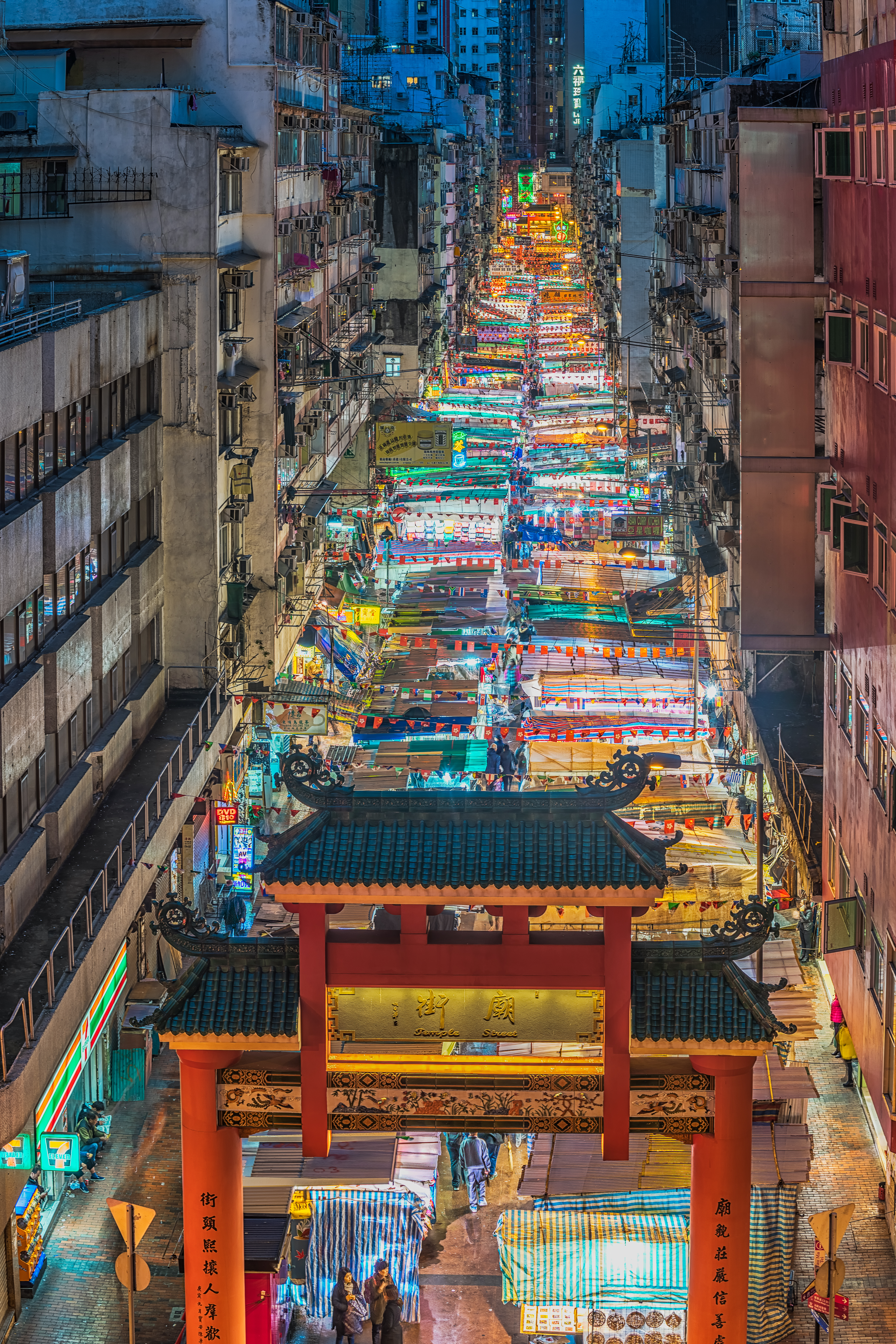 Temple Street Night Market, Hong Kong